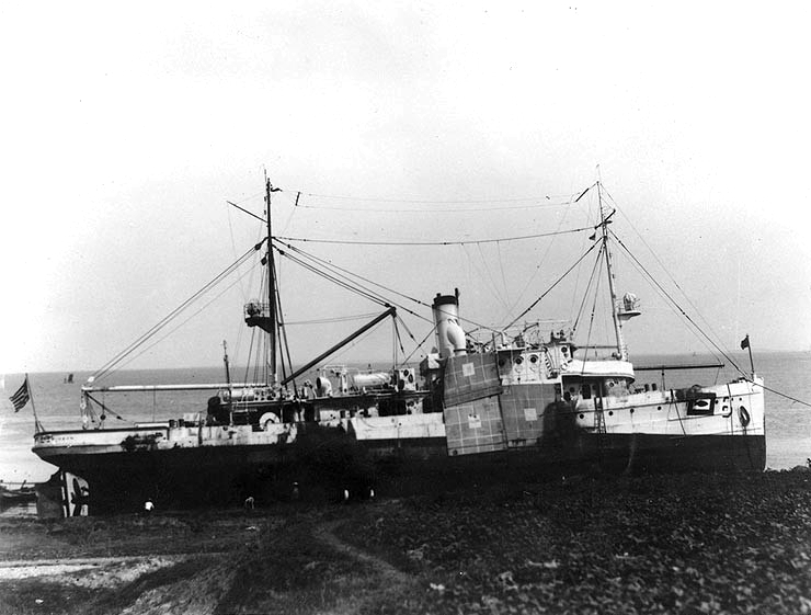 The U.S. Navy submarine rescue ship USS Pigeon (ASR-6) undergoing refloating operations after she ran aground during a typhoon at Tsingtao, China, in September 1939. Note the short range battle targets hung amidships.